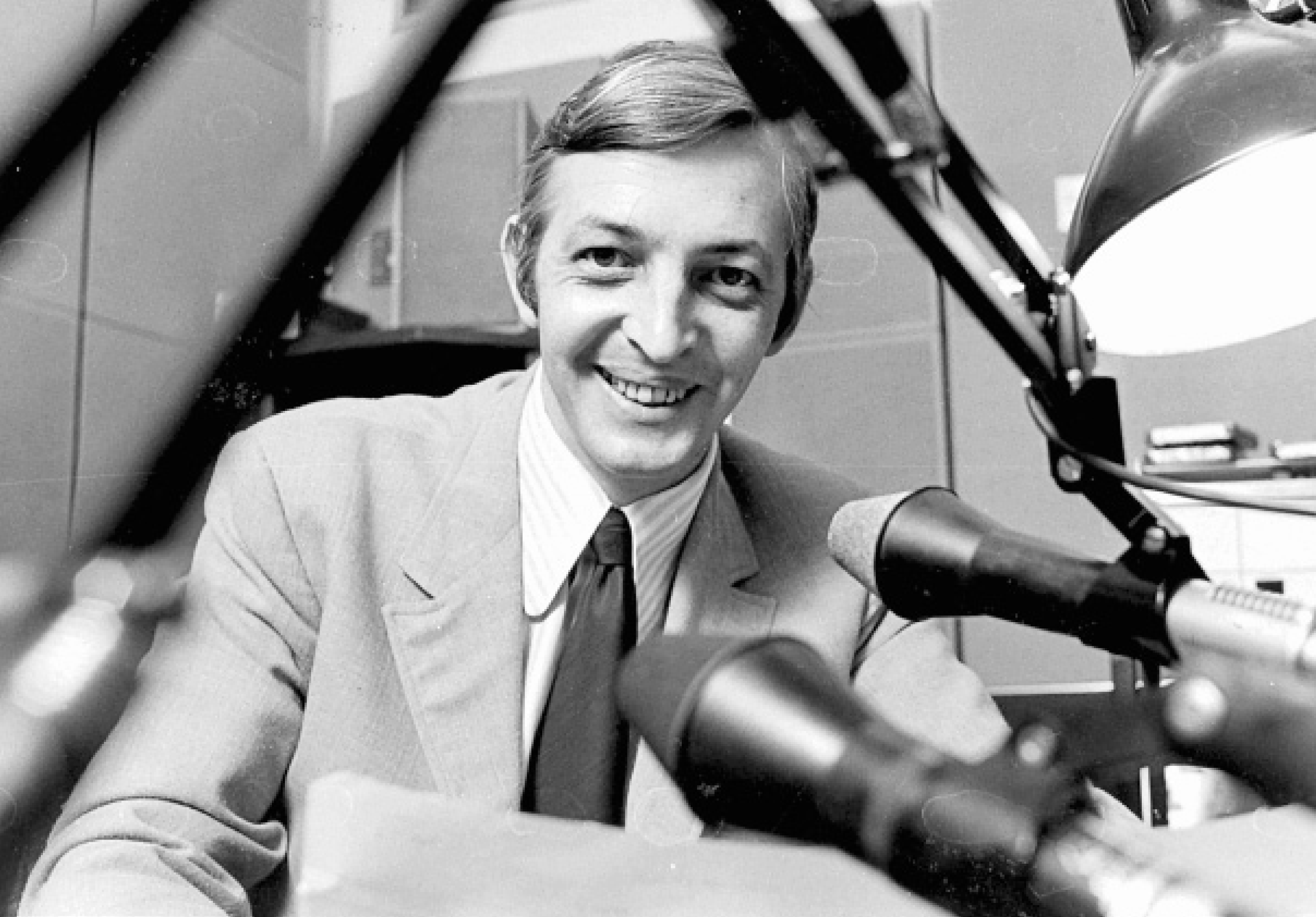 A very young Don Durbridge